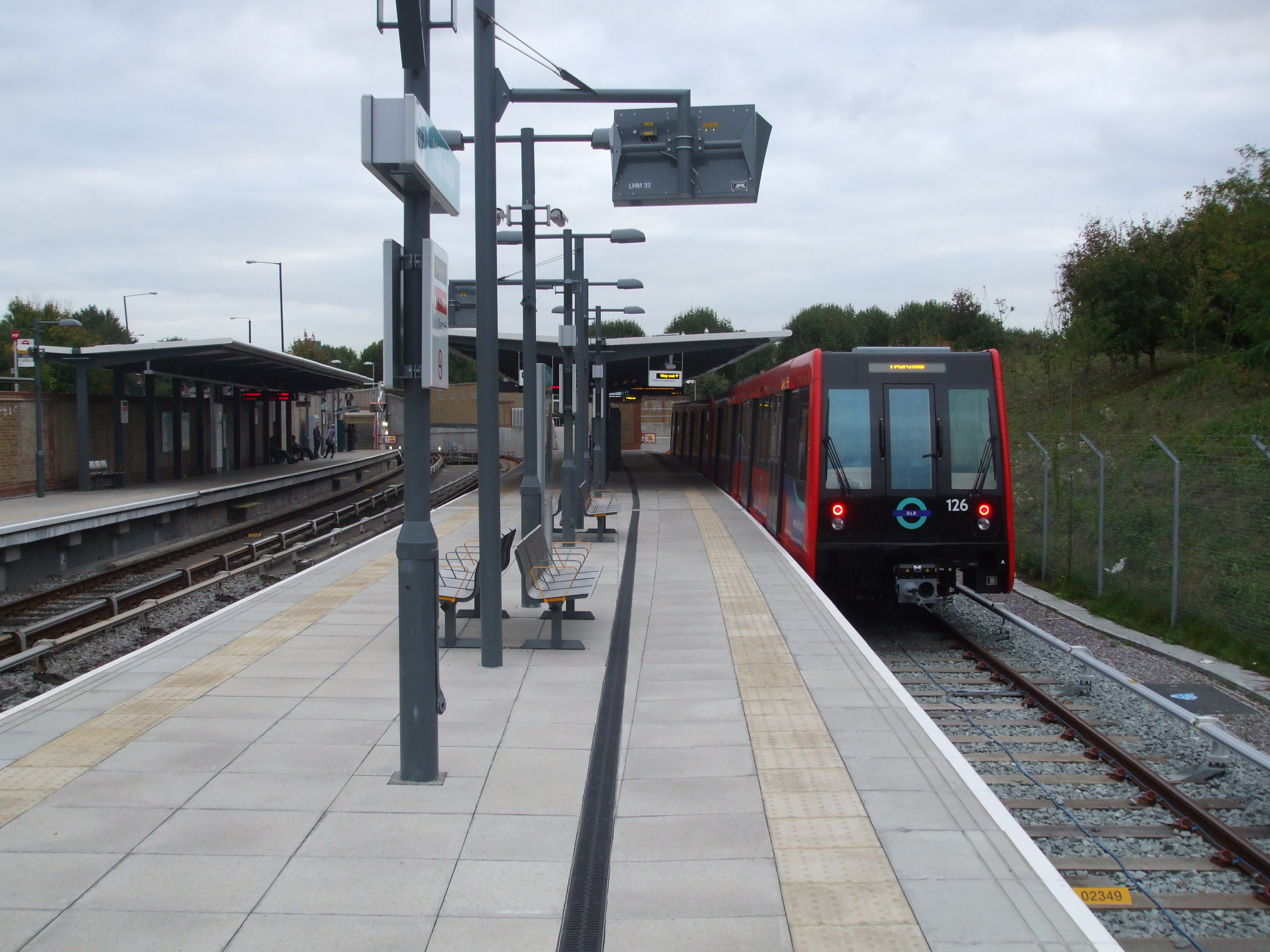 Mudchute DLR station bay platform looking south to buffers, with B07 stock unit 126 awaiting departure. The platform opened a few weeks before this picture was taken.